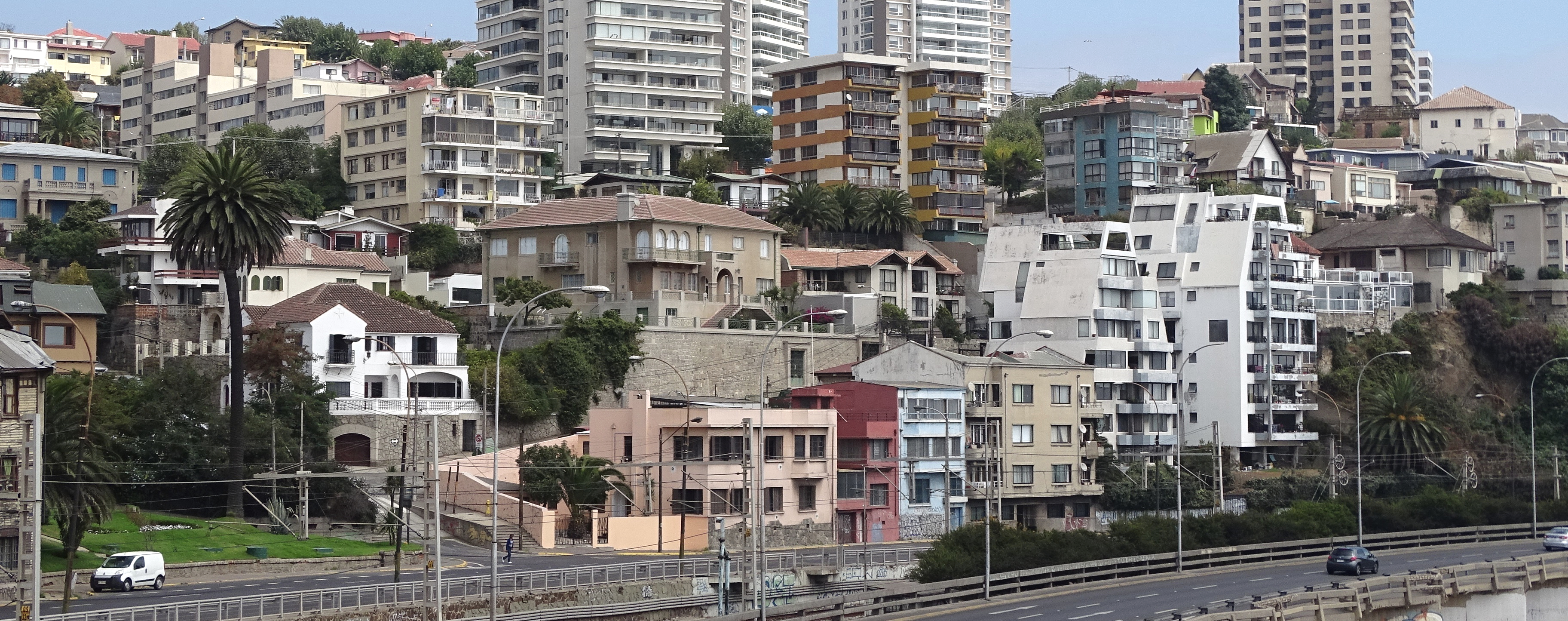 Panoramic of Recreo, neighbourhood in Viña del Mar, Valparaíso Region, Chile.